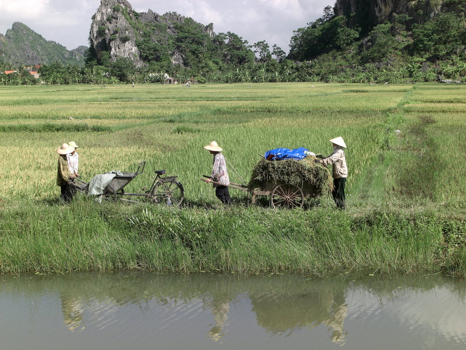 Rice fields in the interior Halong Bay Vietnam